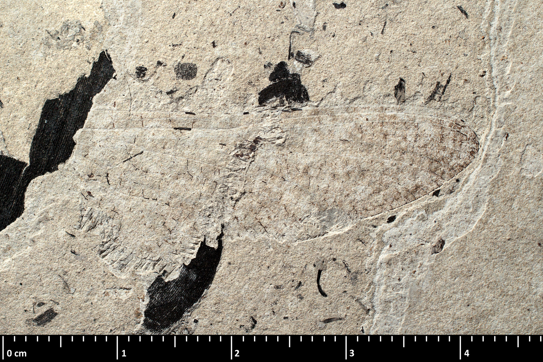 Somatochlora brisaci holotype specimen part side with direct lighting. Turolian, Miocene; Montagne d'Andance, Saint-Bauzile, Privas, France Muséum national d'Histoire naturelle specimen MNHN.F.R10420